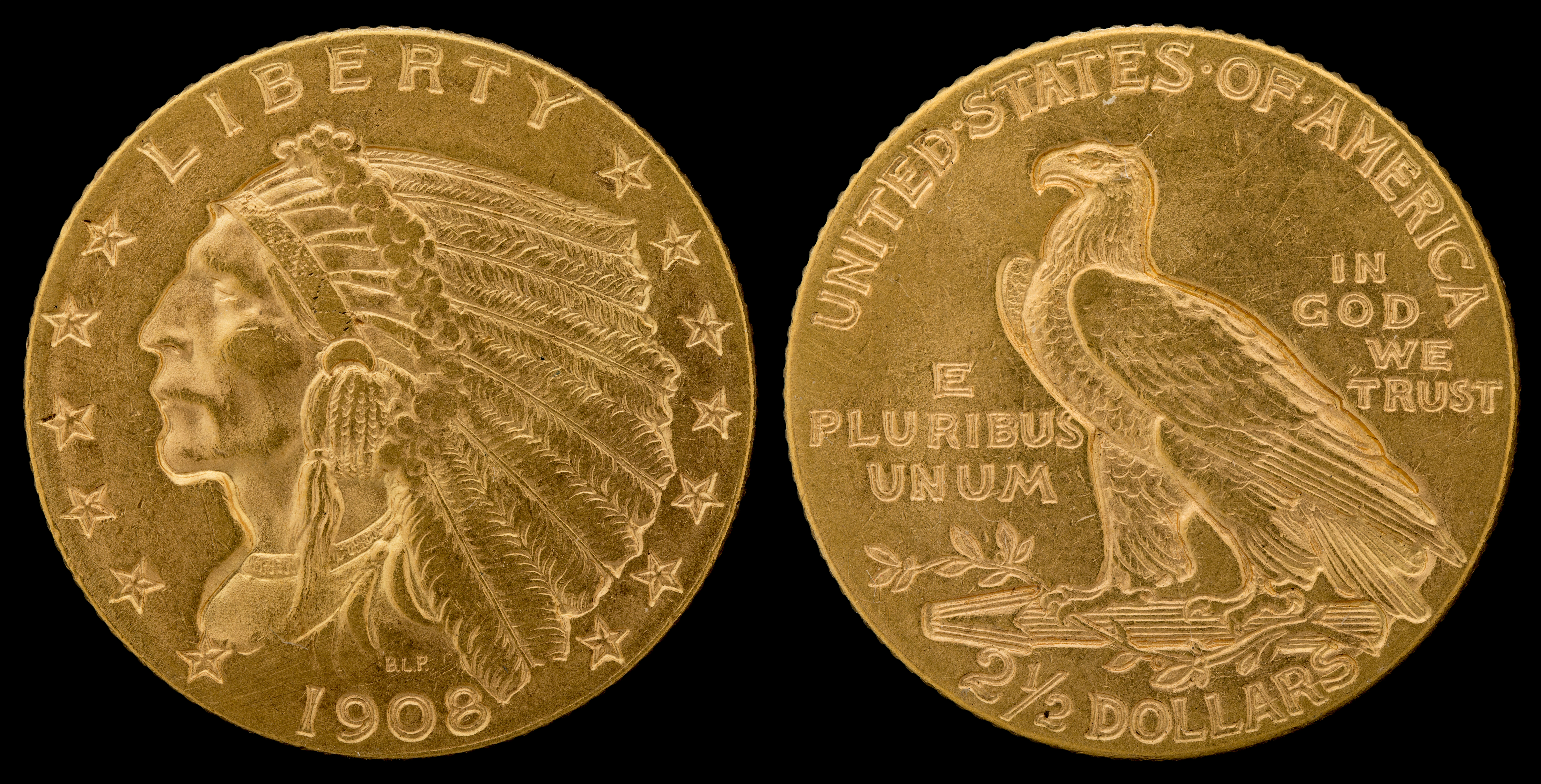 1908 G$2½ Indian HeadGold (fineness 0.9000), 18mm, 4.18g, designed by Bela PrattJN2015-6728-29